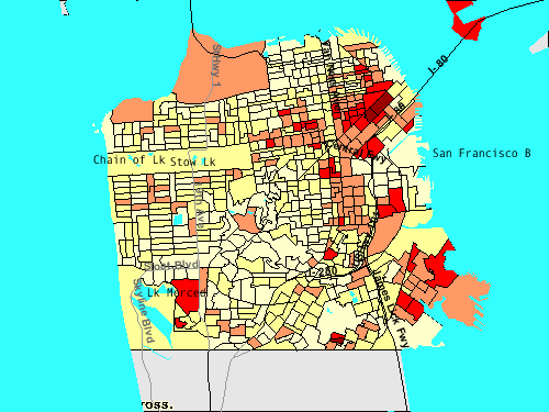 This image is a self-generated thematic map from the U.S. Census Bureau's American Factfinder at by Wikipedia user Stevey7788.